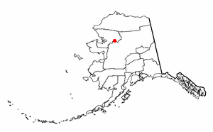 Adapted from Wikipedia's AK borough maps by Seth Ilys.